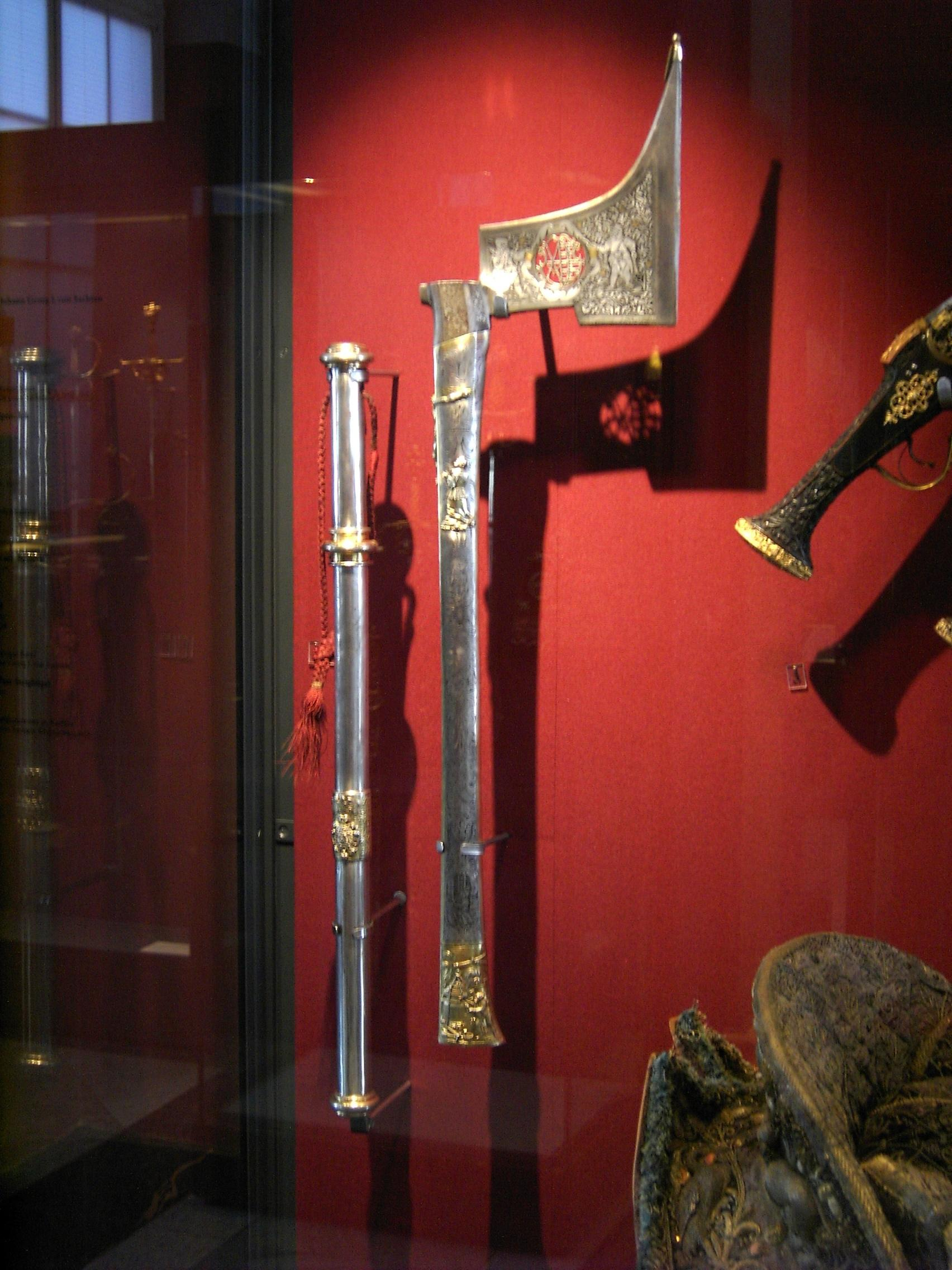 Dresdner Zwinger, 16th or 17th century armour and weapons, Not a battle axe